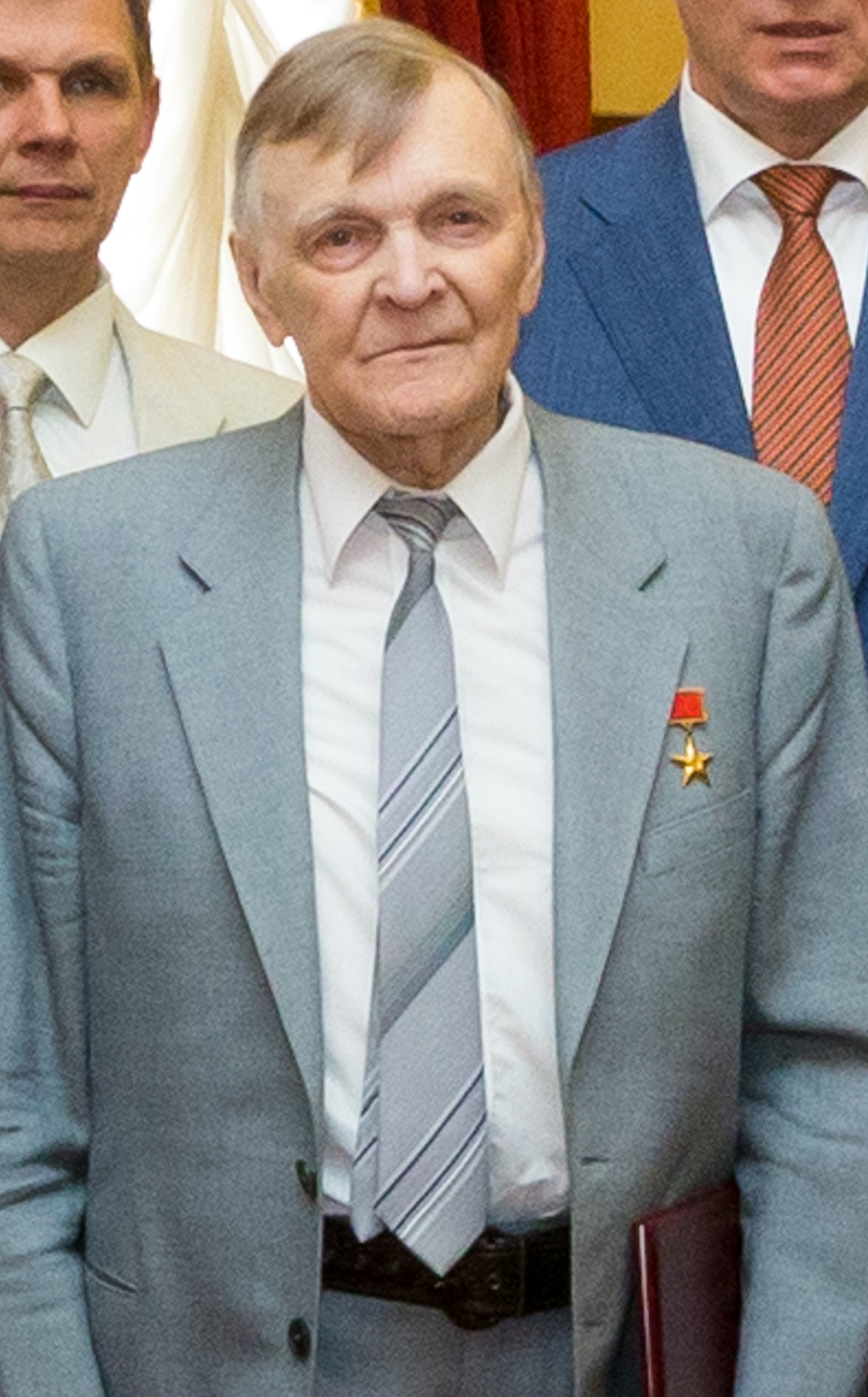 Yury Bondarev, Russian writer